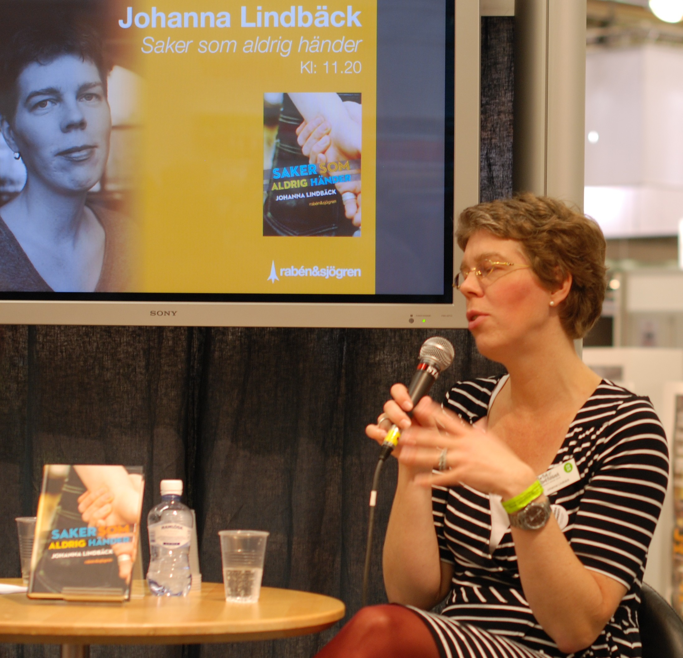 Swedish author Johanna Lindbäck at the Göteborg Book Fair 2010